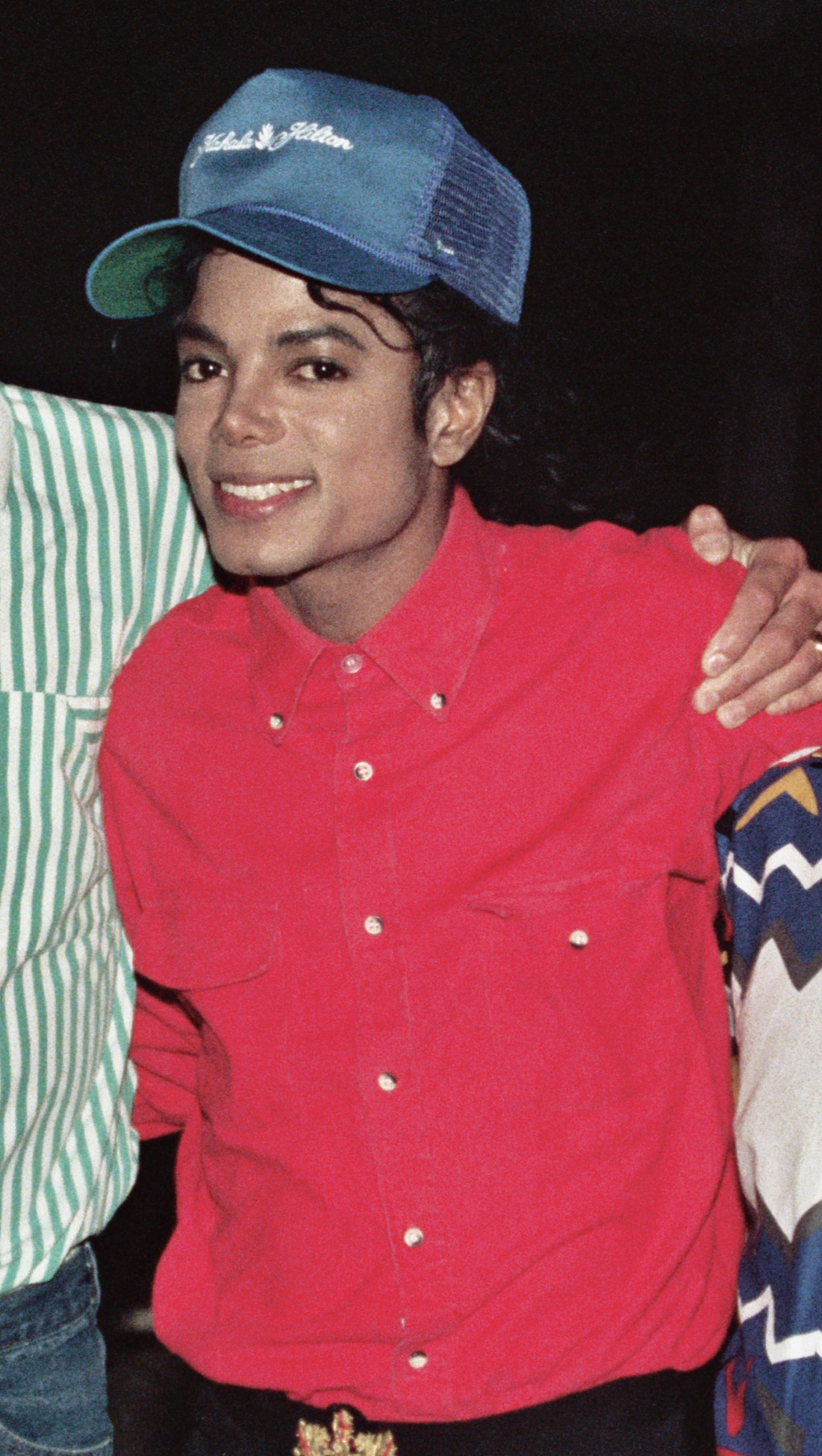 Michael Jackson with two fans at the Kahala Hilton Hotel. Photograph by Alan Light, early February 1988